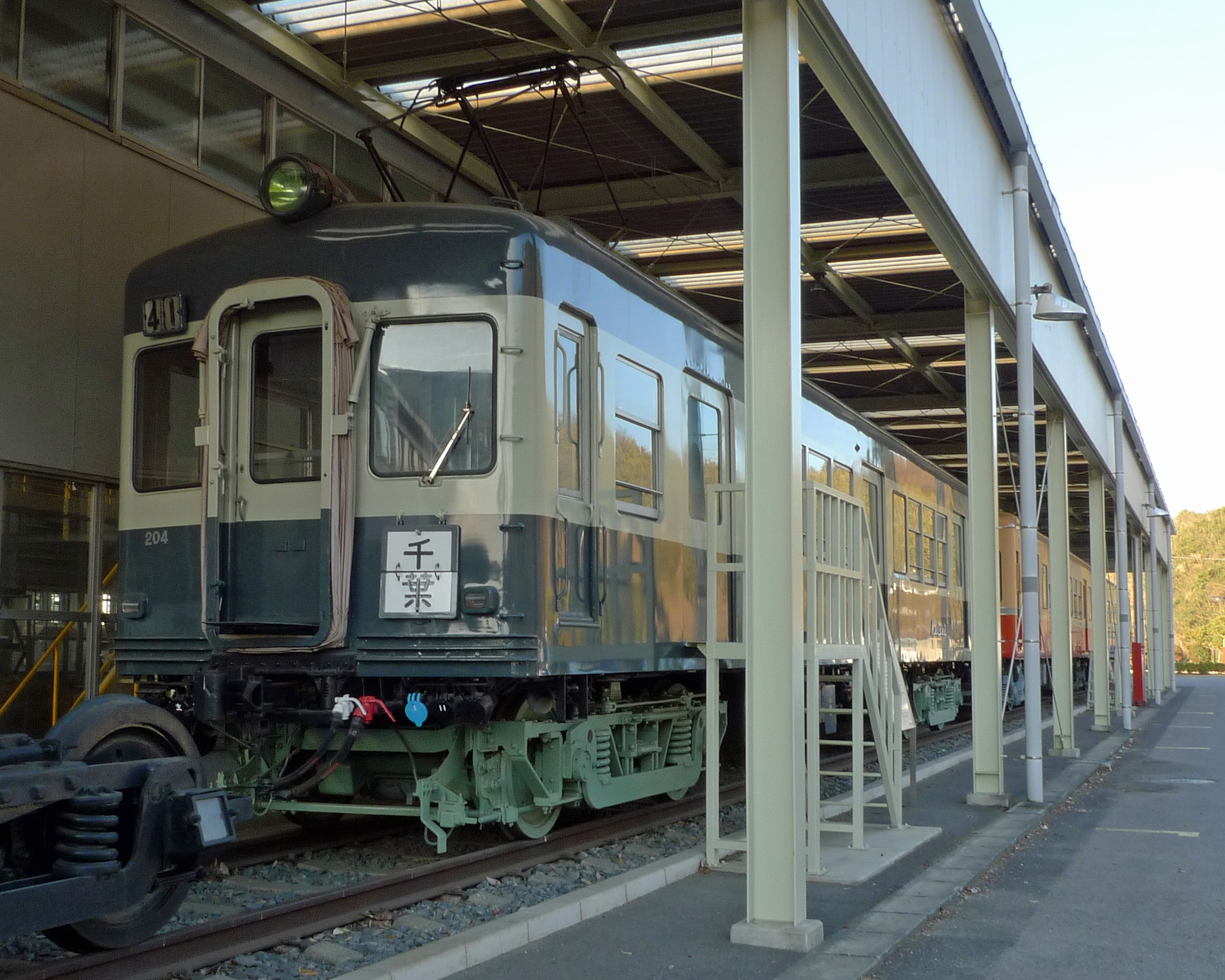 Keisei 200 series in Sougo-sandou Rail yard.